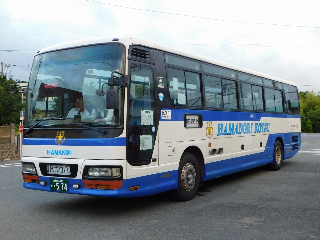 Hamadori kotsu Isuzu Gala (KC-LV781R1) for JR Joban line bustitution (Tatsuta-Haranomachi)